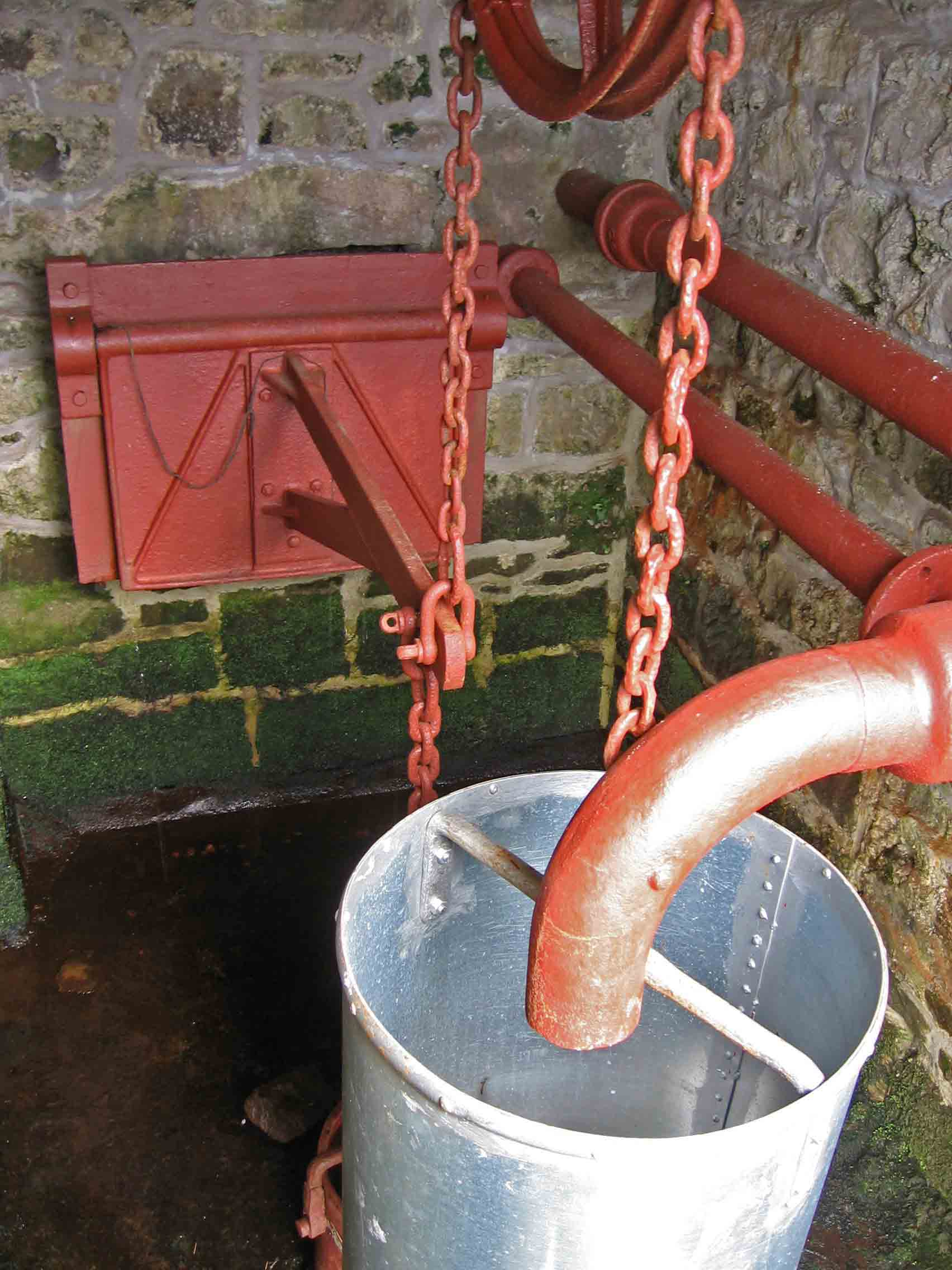 Automatic sluice gate mechanism at the Greenock Cut aqueduct leading from Loch Thom. When the aqueduct is over full, water flows down the pipe in the foreground and fills the bucket, which then pulls the chain down over the pulley wheel and lifts the counterweight and the lever opening the sluice gate. Small holes in the bucket allow the water to drain slowly out, so when the inflow stops the counterweight eventually pulls the sluice gate lever down and lifts the empty bucket.